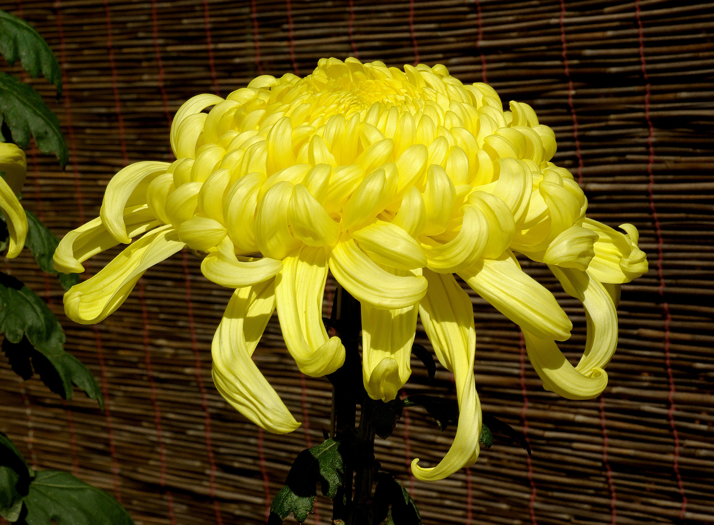 Chrysanthemum. The size of this flower is around 200mm. This picture was taken at Osaka, Japan.